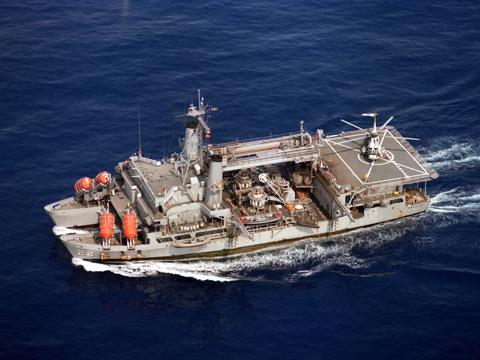 USS Ortolan (ASR-22) underway, date and location unknown. US Navy photo